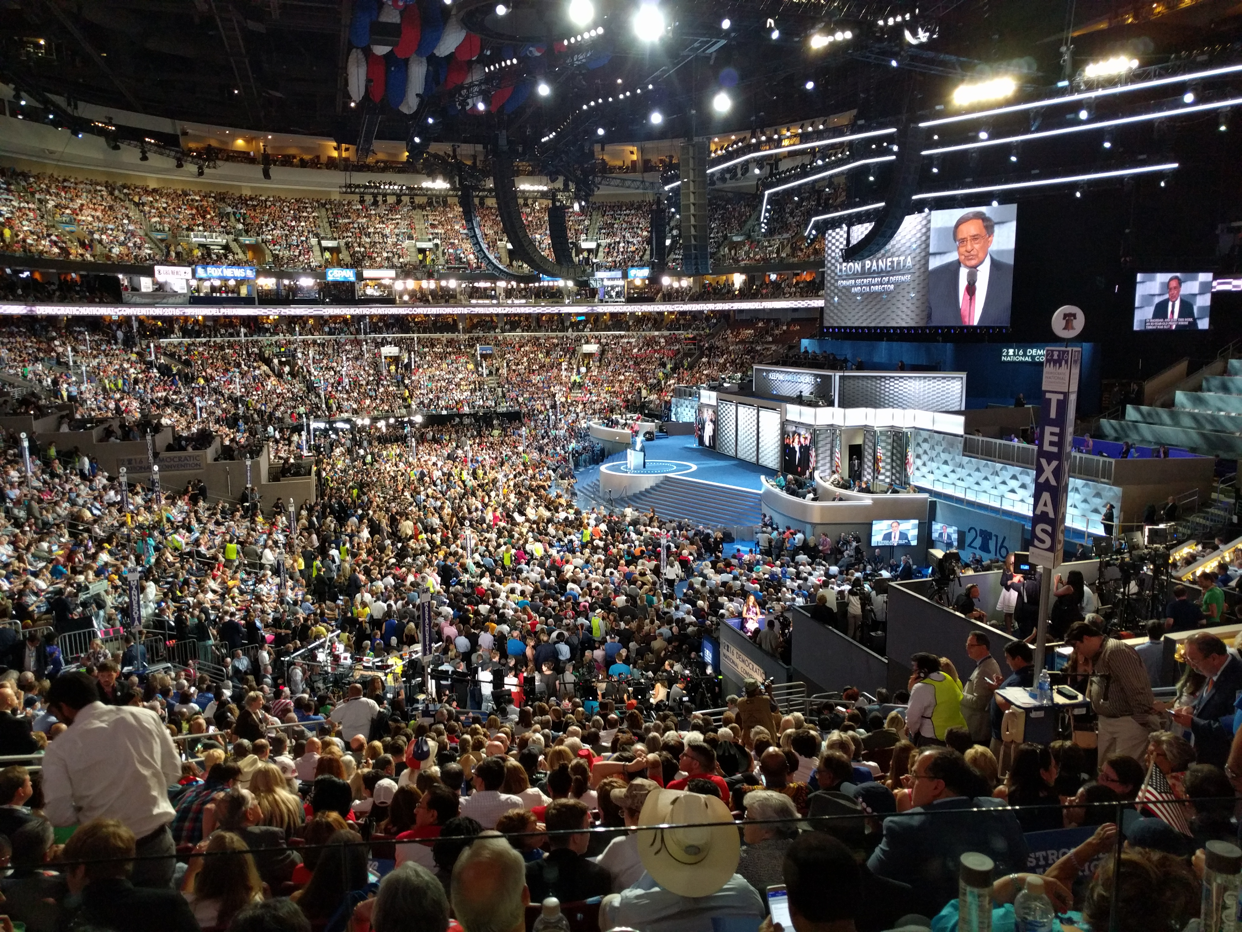 Leon Panetta speaks on day 3 of the 2016 DNC